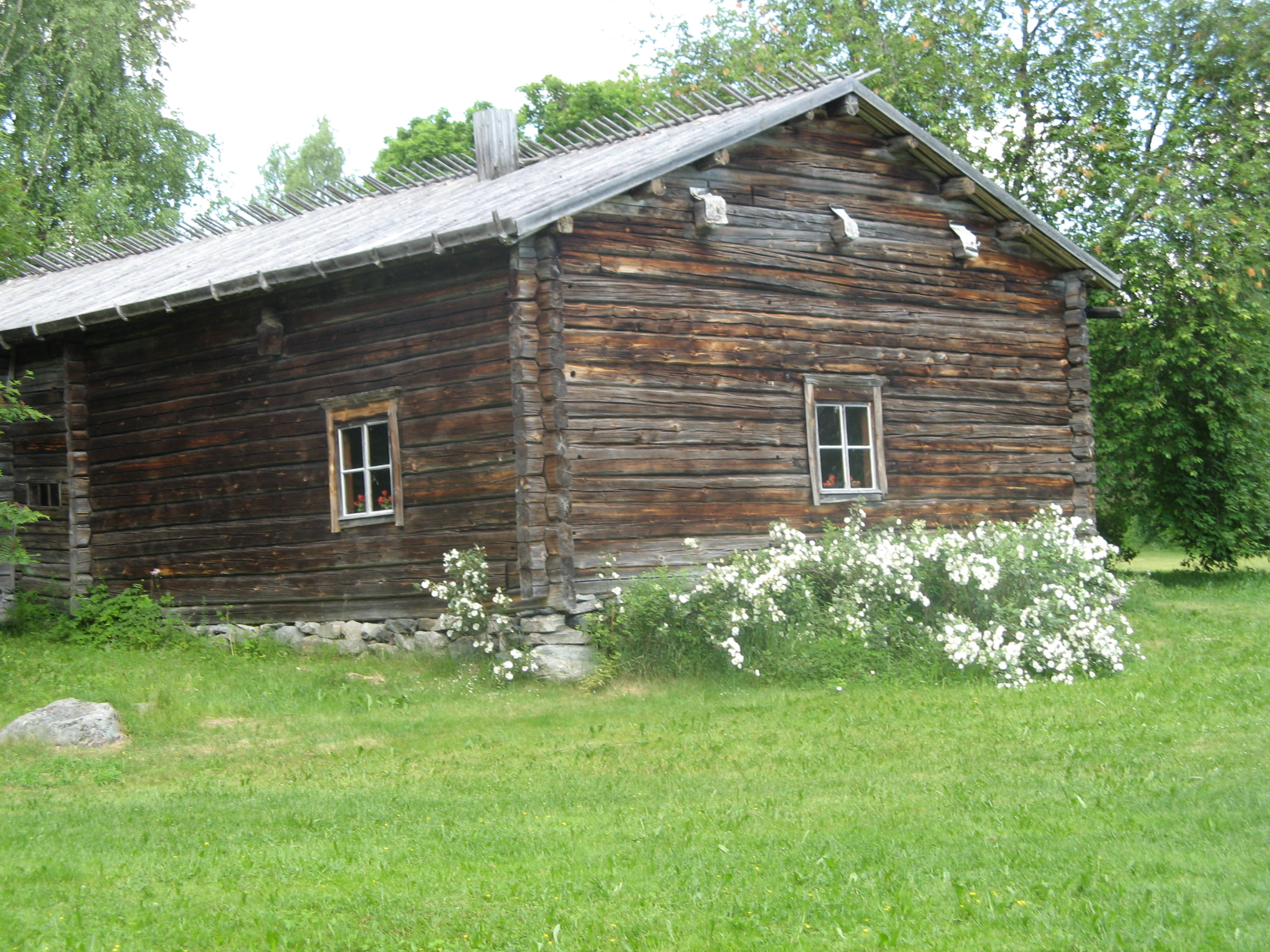 The original homestead of Paavo Ruotsalainen on Aholansaari island in Nilsiä, Finland